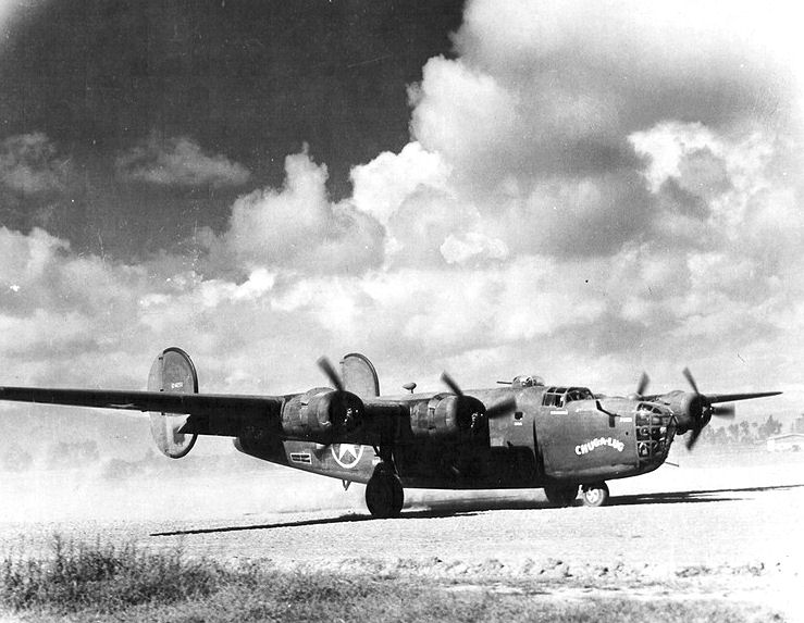 "Chug-A-Lug" B-24D-25-CO Liberator s/n 41-24251 425th Bombardment Squadron, 308th Bombardment Group, 14th AF Taken at Kwanghan Airfield, China